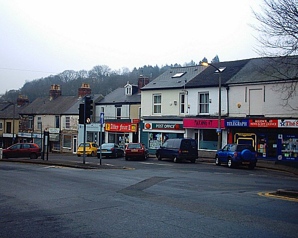 Totley Rise row of shops.